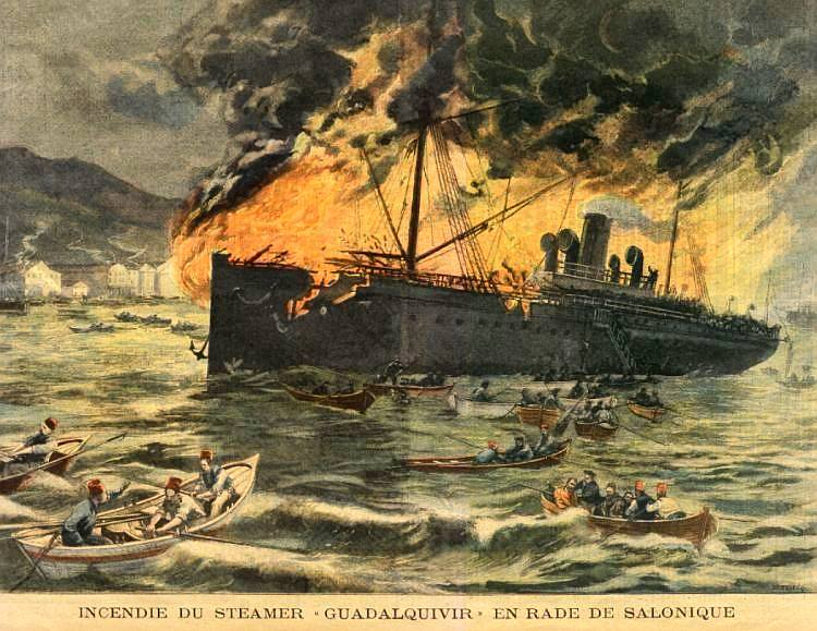 The burning french ship Guadalkivir in Salonika, april 1903